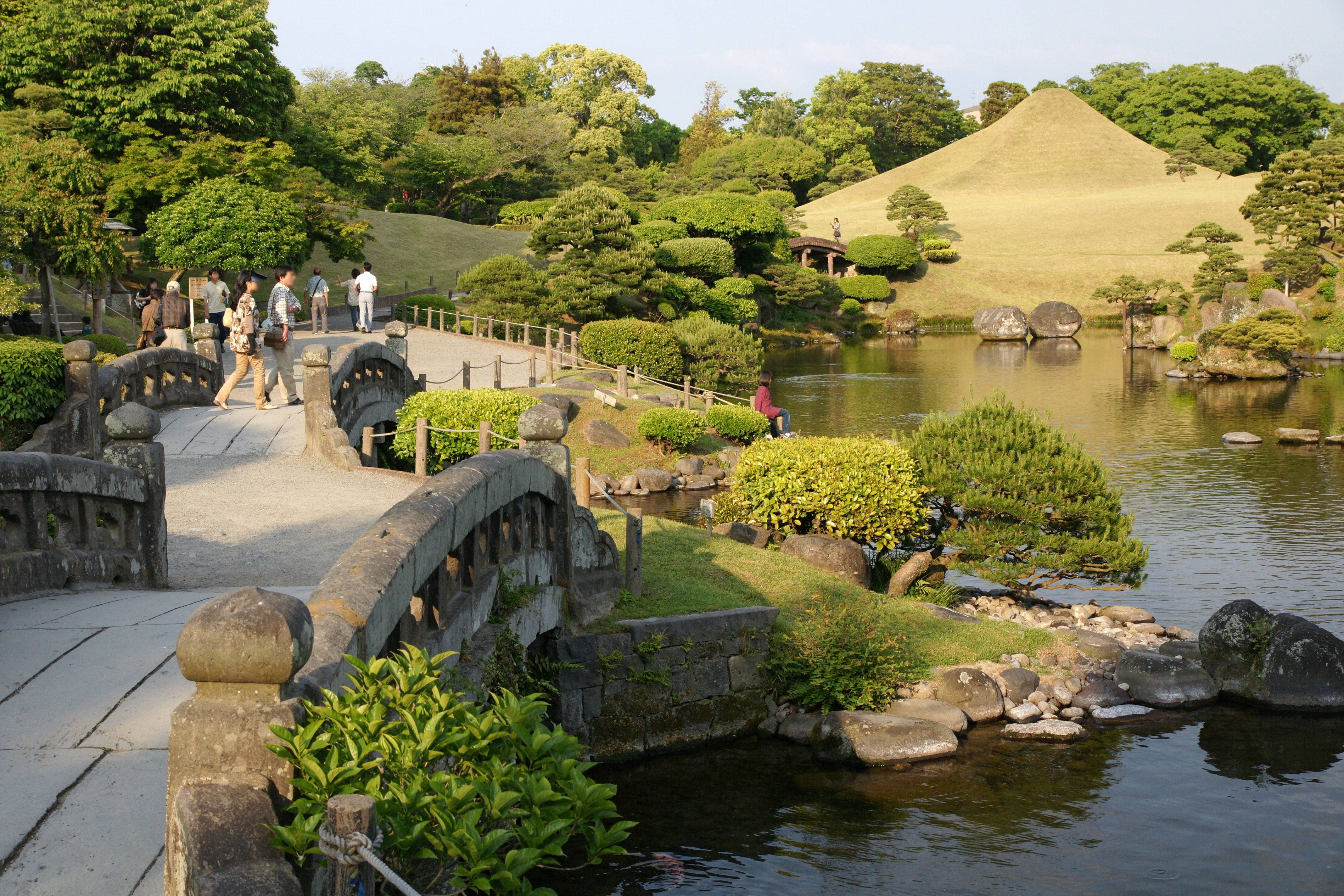 Suizenji-jojuen, Kumamoto, Kumamoto prefecture, Japan